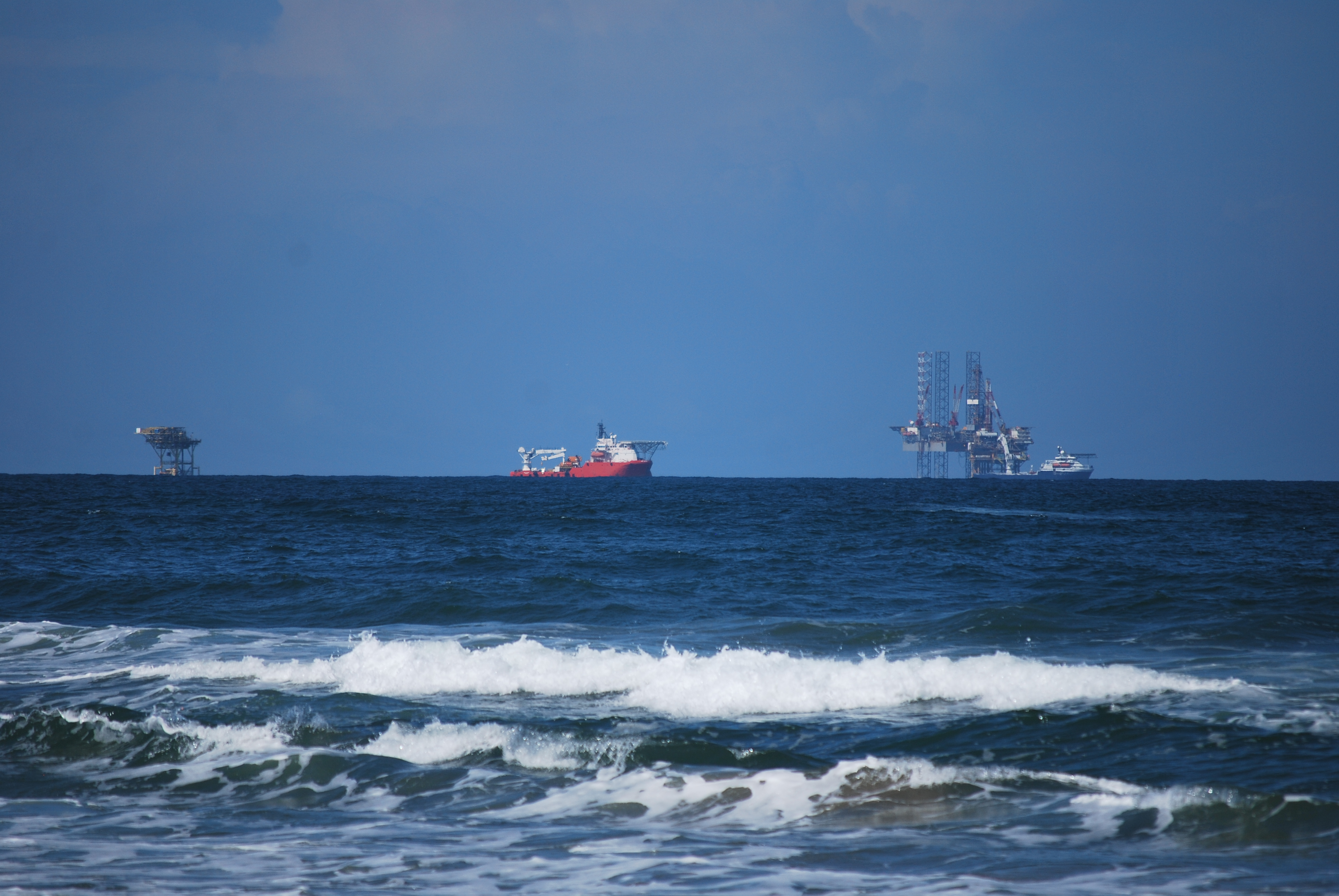 Looking off Varadero Beach toward oil rig in Paraíso, Tabasco